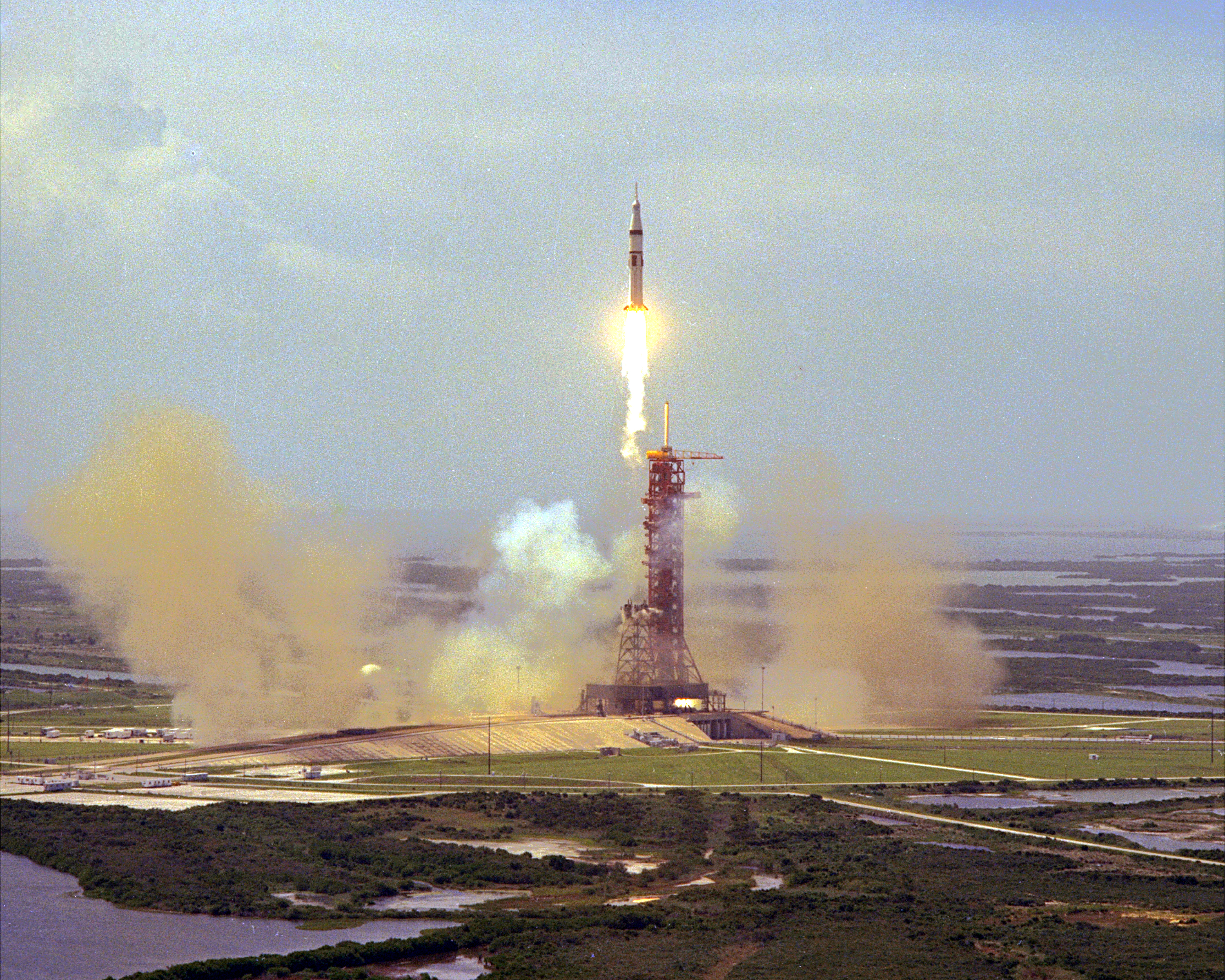 The Apollo–Soyuz Test Project Saturn IB launch vehicle launched from Kennedy Space Center's Launch Complex 39B at 3:50 p.m.